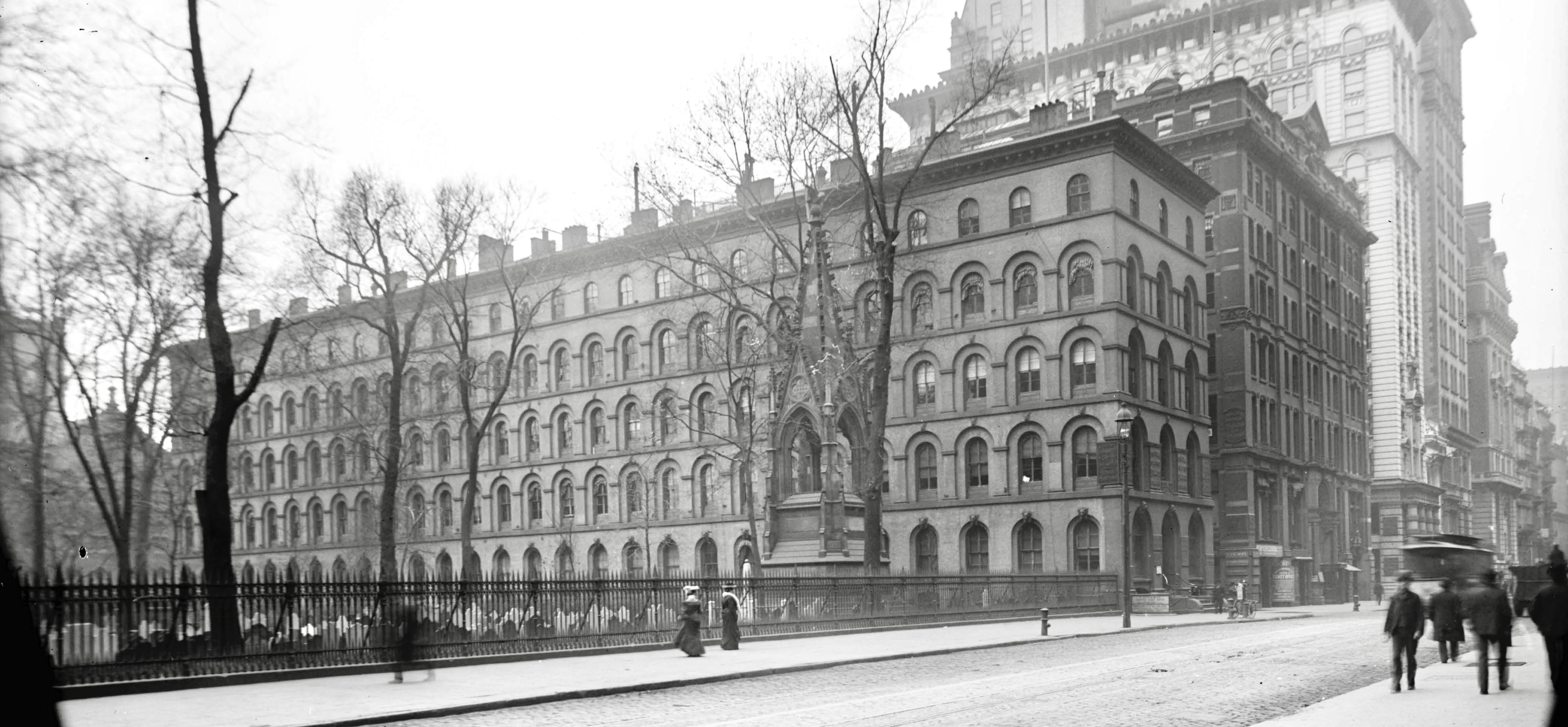 View from Broadway across the Trinity Church yard to the Trinity Building, New York City, November 16, 1902